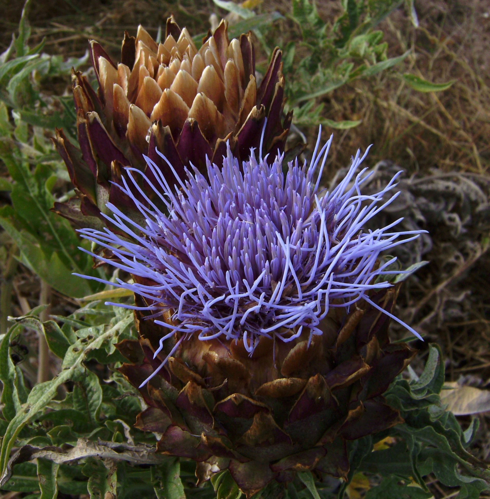 Cynara cardunculus flower. Castelltallat, Catalonia